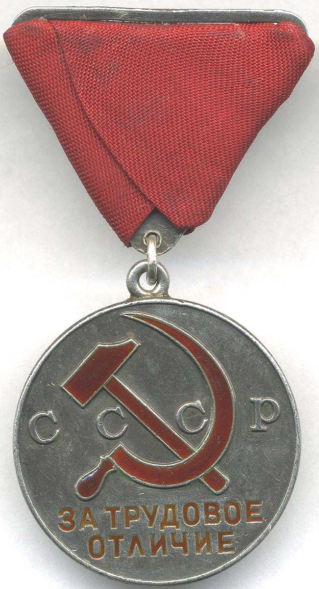 Soviet Medal For Distinguished Labour